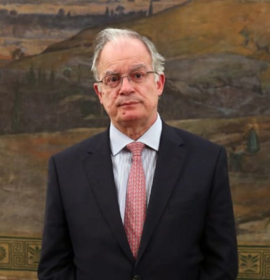 Konstantinos Tasoulas, Speaker of the Hellenic Parliament